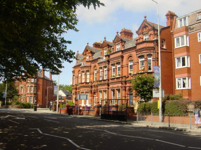 Princes Avenue, Liverpool 8. Once a grand avenue of merchant's houses with tree-lined park in the middle of the road, this was a desirable place to live. Many of the houses on Princes Avenue still retain their former grand architectural style but unfortunately some became derelict and were demolished (modern building on right)but the importance to Liverpool's heritage has now been recognised and gradually they are being restored.